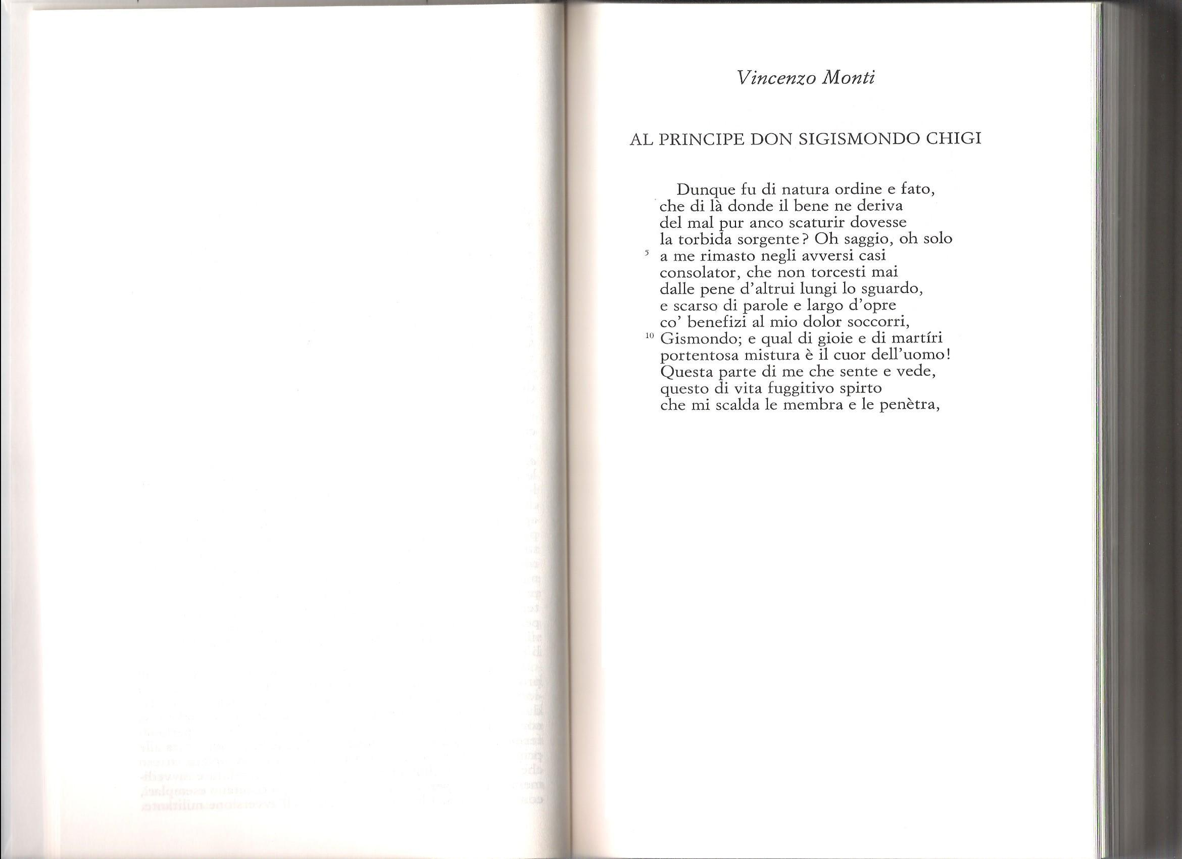 A scan of page 01 of the poem "Al Principe Don Sigismondo Chigi"